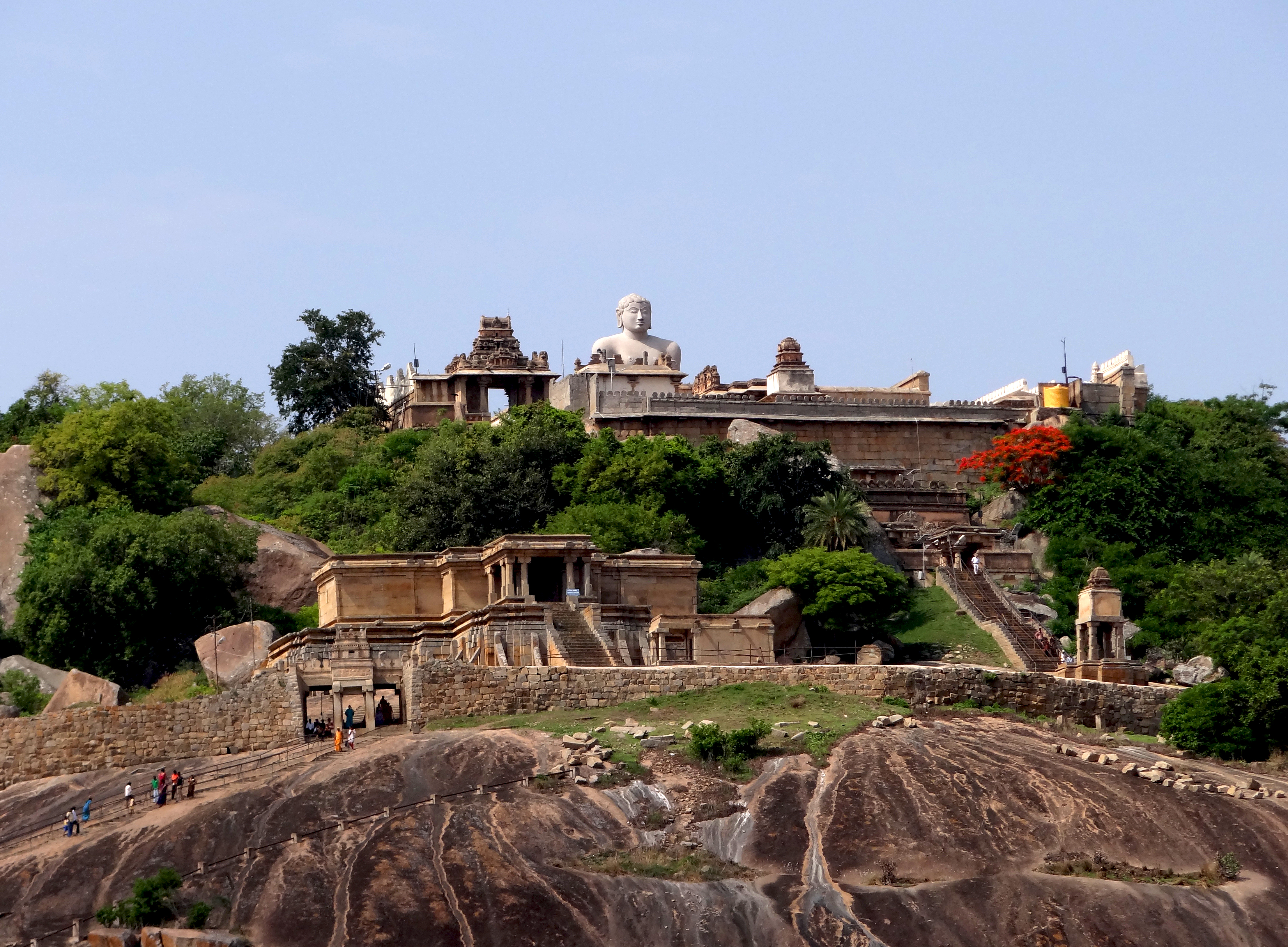 The statue of Bahubali atop Vindhyagiri. Of the two hills, Vindhyagiri and Chandragiri, Vindhyagiri is the tallest.